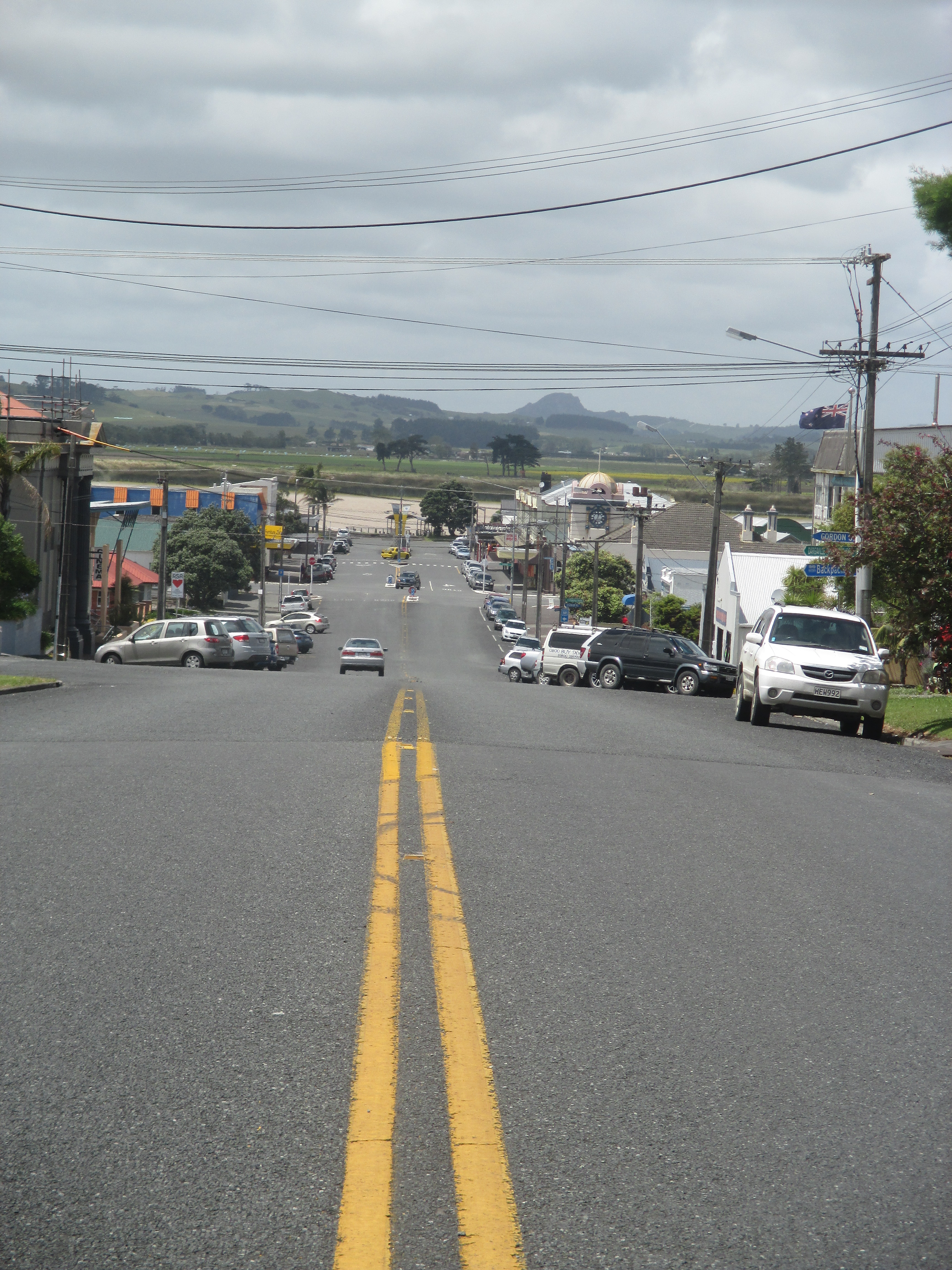 Hokianga Road, Dargavillle, New Zealand, looking towards the Wairoa River